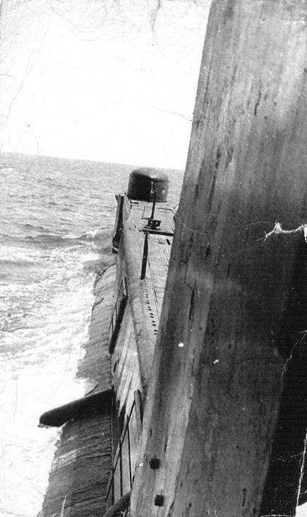 The Left side of INS Leviathan on her way from Scotland to join the IN for the Sixth Days War